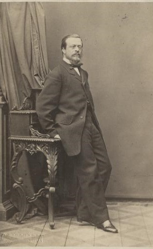 Alexander Rudolf Karl von Uexküll, the third mayor of Reval (modern-day Tallinn)